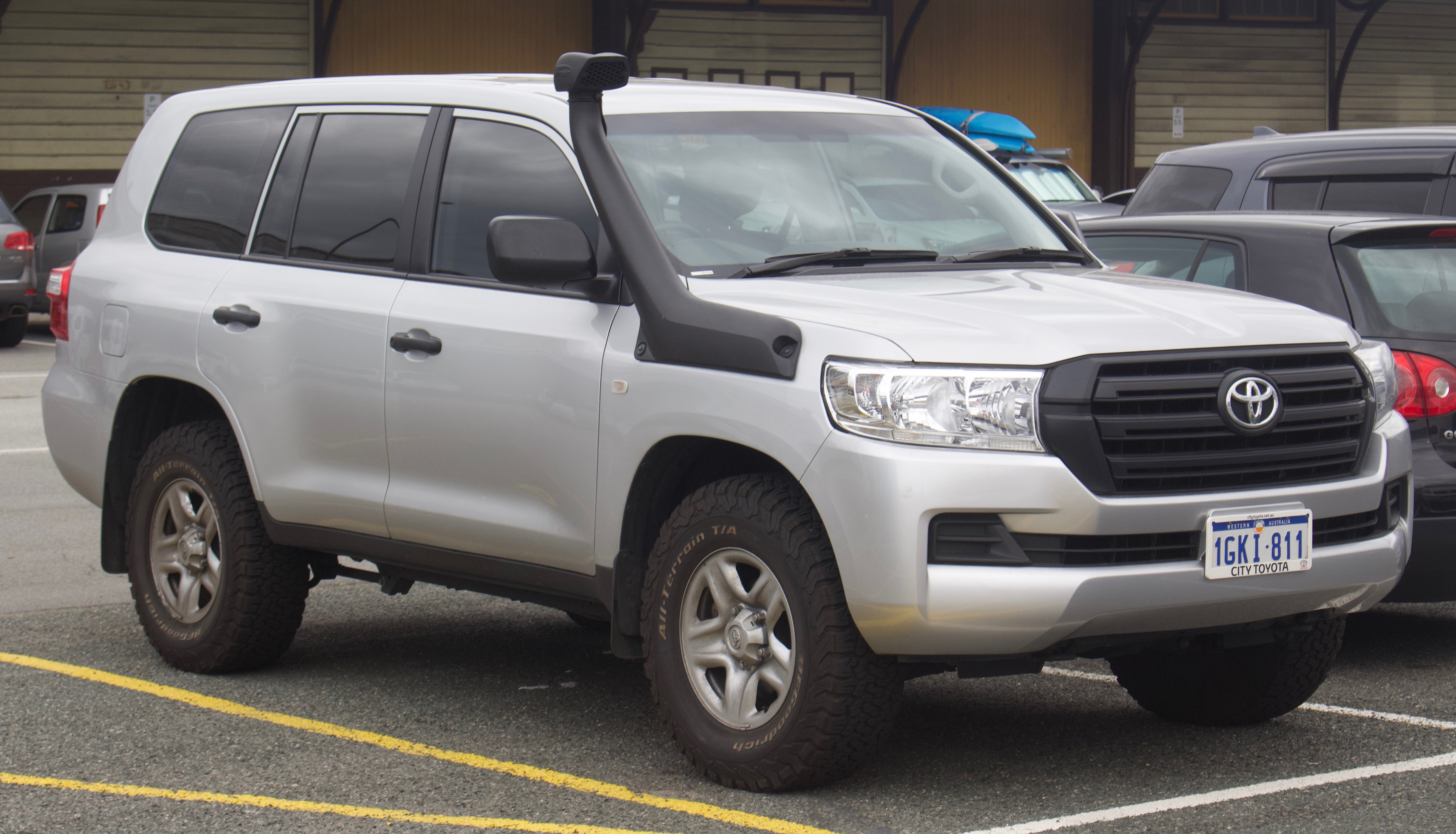 2017 Toyota Land Cruiser (VDJ200R) GX wagon. Photographed in Fremantle, Western Australia, Australia.